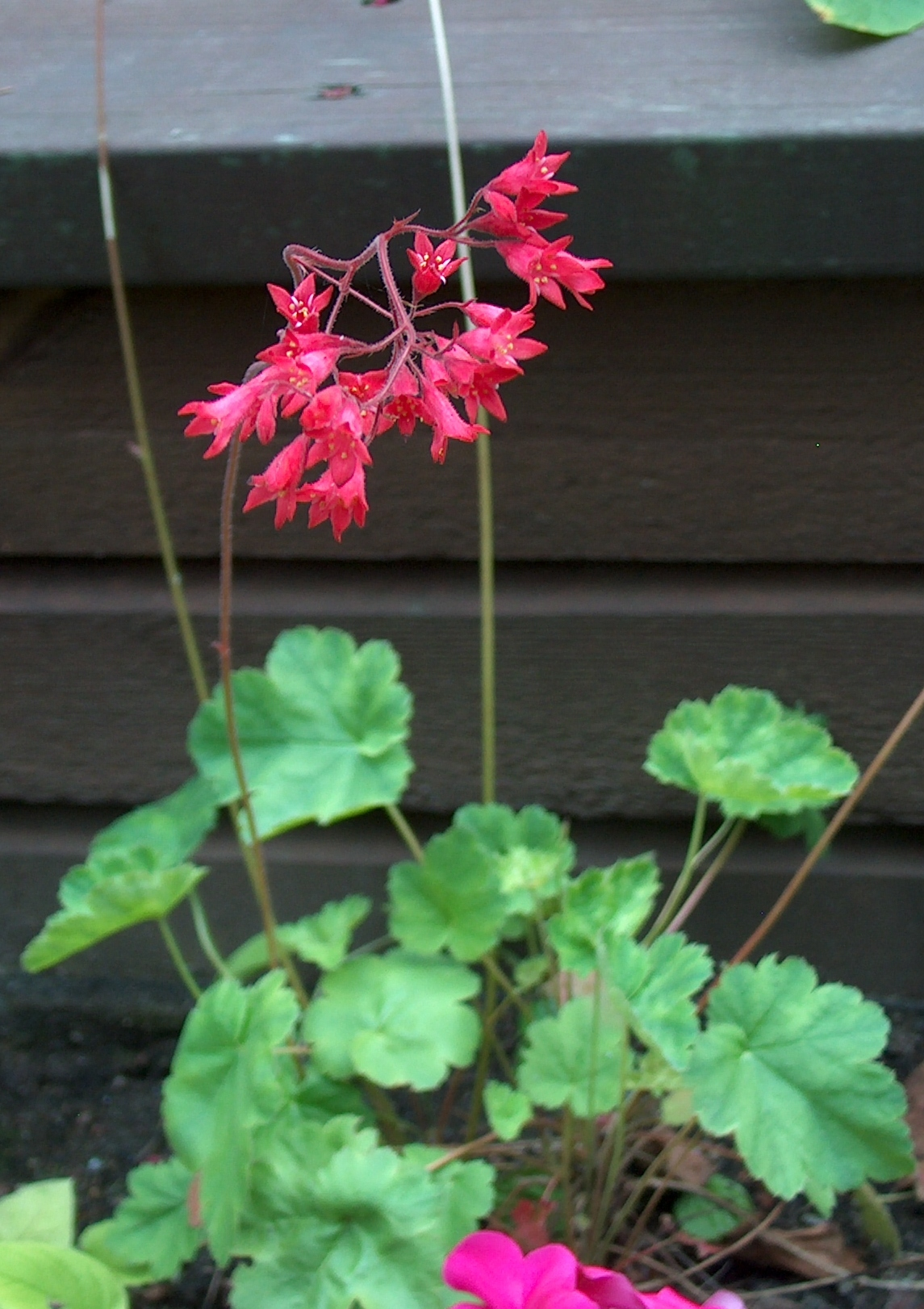 Coral bells (Heuchera sanguinea) blooming in Laajasalo, Helsinki.